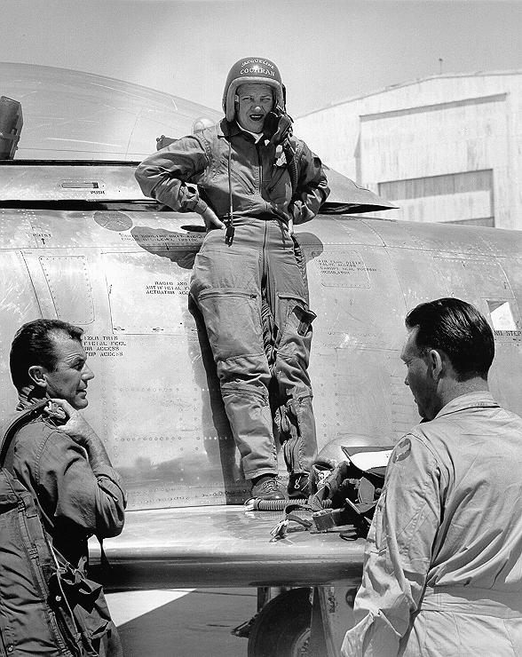 Jacqueline Cochran standing on the wing of her F-86 whilst talking to Chuck Yeager and Canadair's chief test pilot Bill Longhurst.